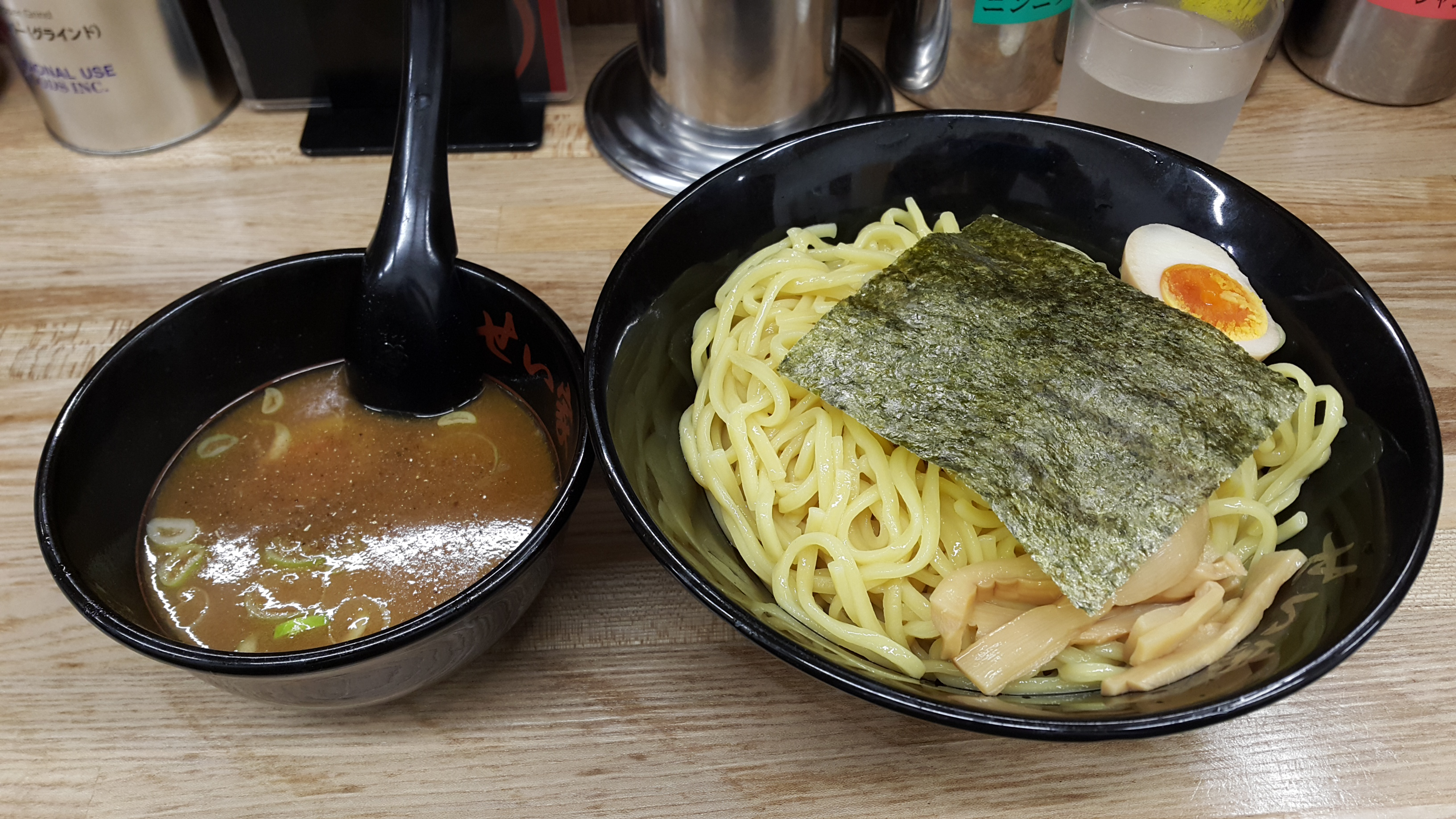 Tsukemen, which is a kind of ramen where the dipping sauce is in a separate bowl (left) from the noodles (right). The noodles are topped with a piece of seaweed and half of a soft-boiled egg.